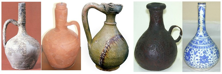 Cauldrons: (left to right)-1, 2 and 3, Arab cauldrons - centuries XI to the XIII - of the Caliphate of Córdoba (Spain) found in Denia (Alicante) and Medina al - Zahara (Córdoba). 4 and 5, embossed leather nontransparent, and nontransparent Turkish School of the 16th century, both in the Lázaro Galdeano Museum (Madrid, Spain).